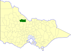 Location of the Shire of Gordon within Victoria.